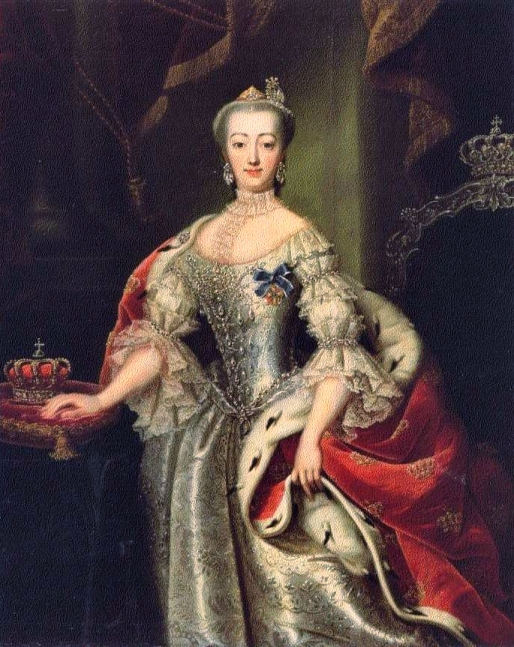 Sophie Magdalene of Brandenburg-Kulmbach (1700-1770), queen of Denmark and Norway